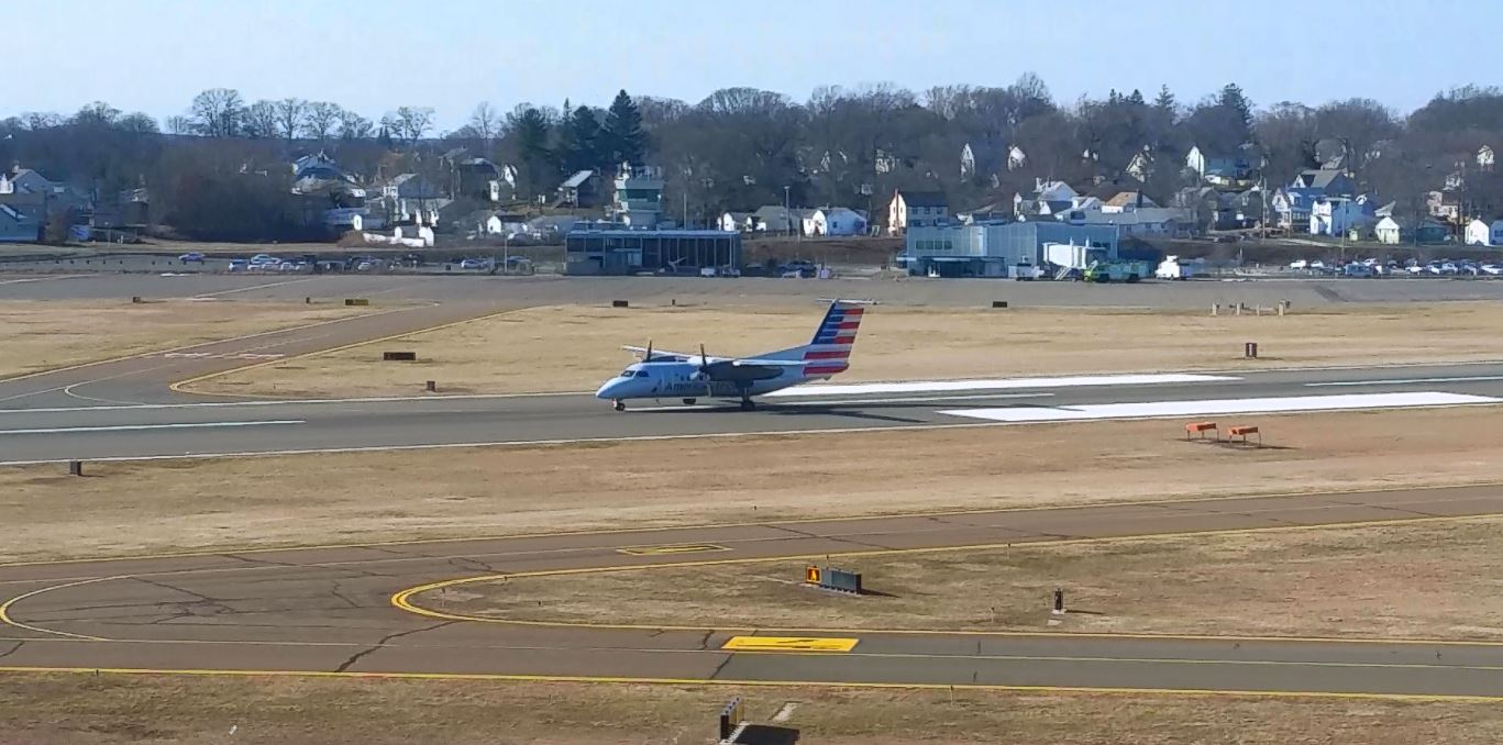 Piedmont Airlines Dash 8-100 departing New Haven.